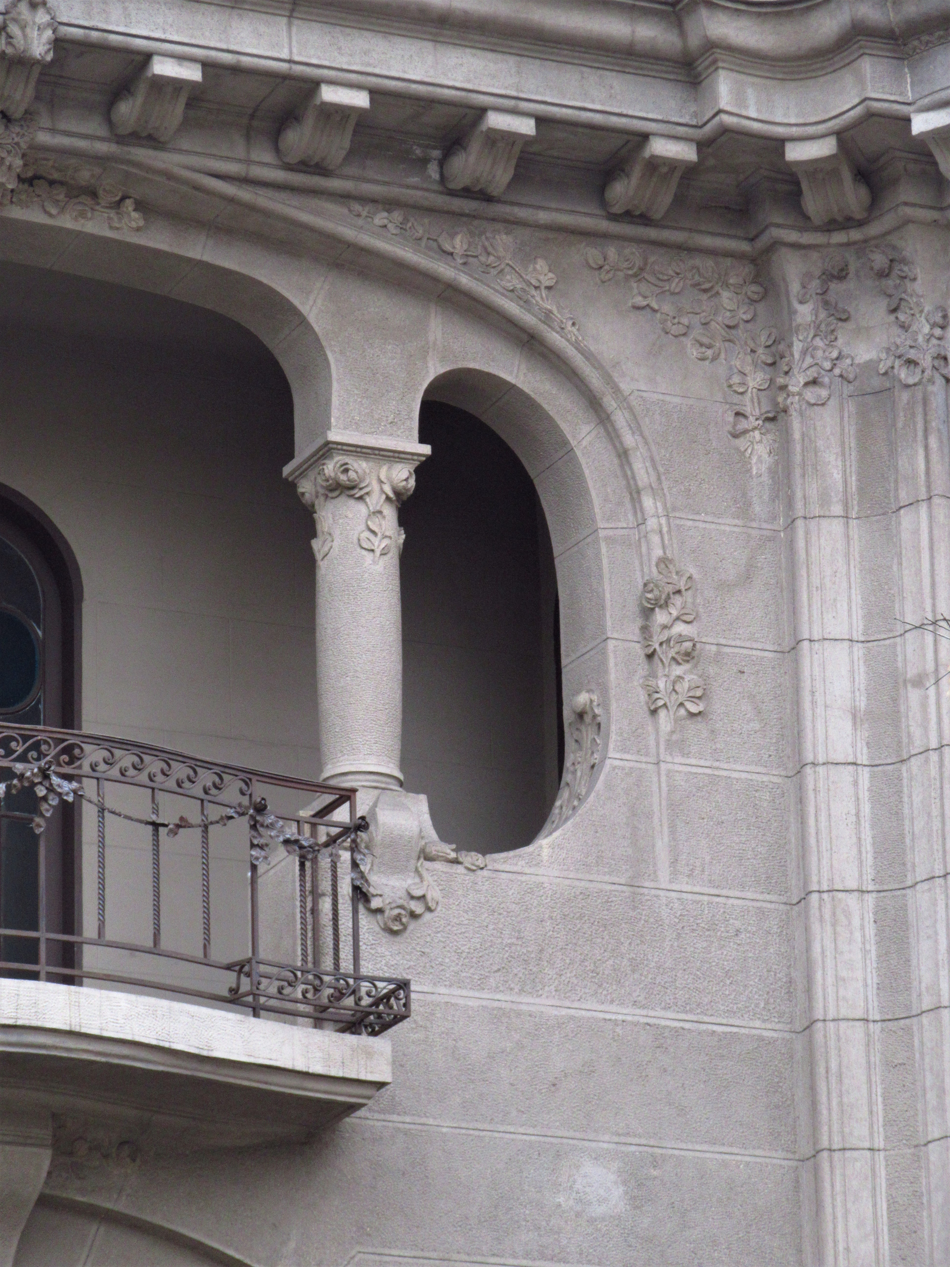 2017 in Santiago de Chile